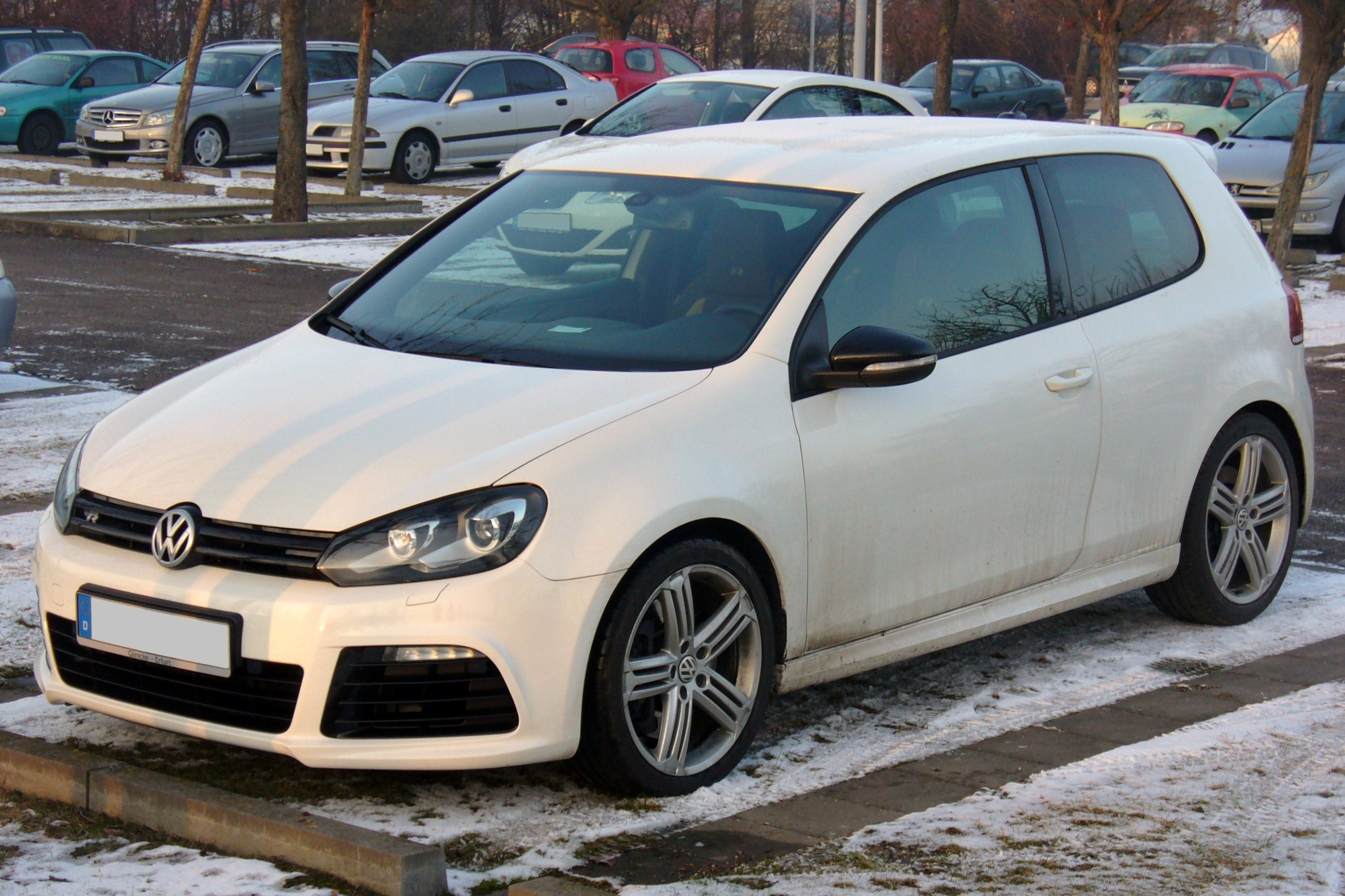 VW Golf R